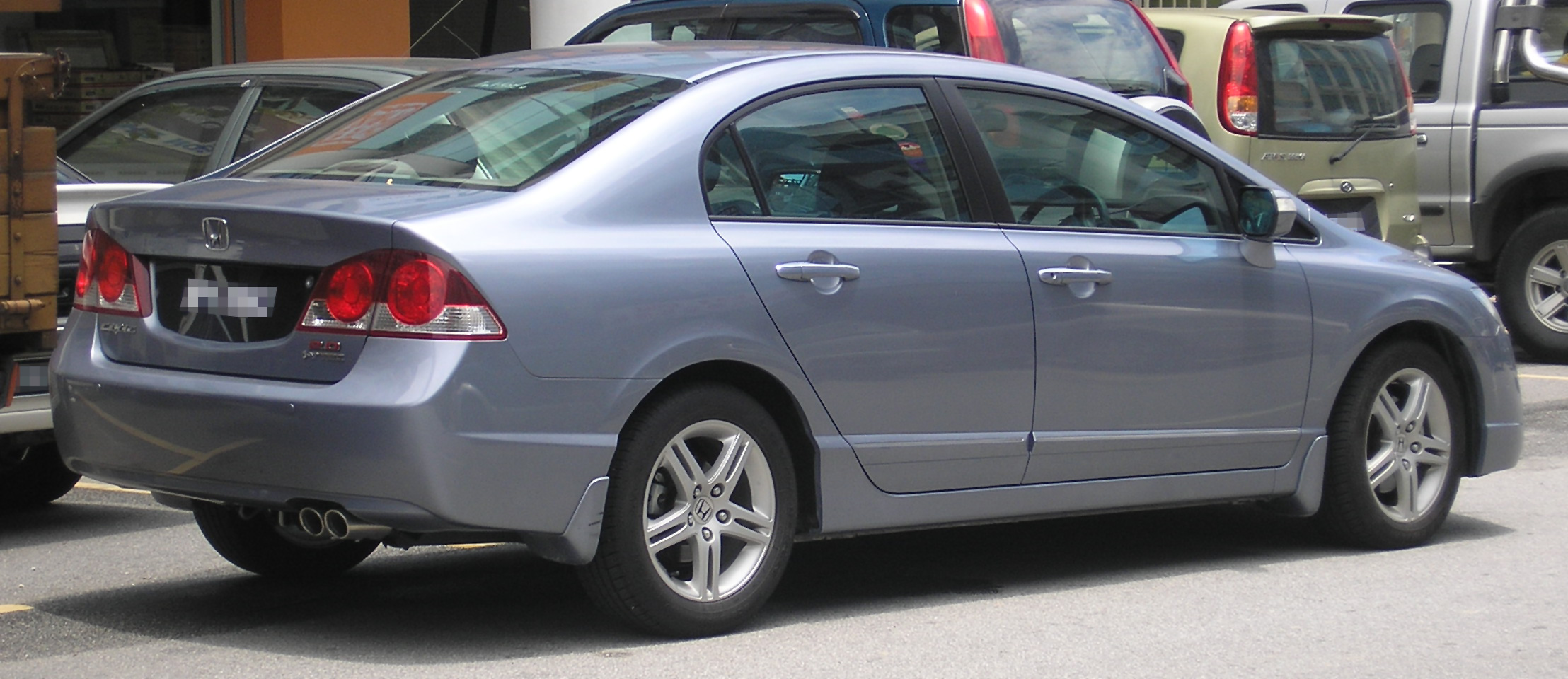 Rear-side shot of an eighth generation Honda Civic, in Serdang, Selangor, Malaysia.